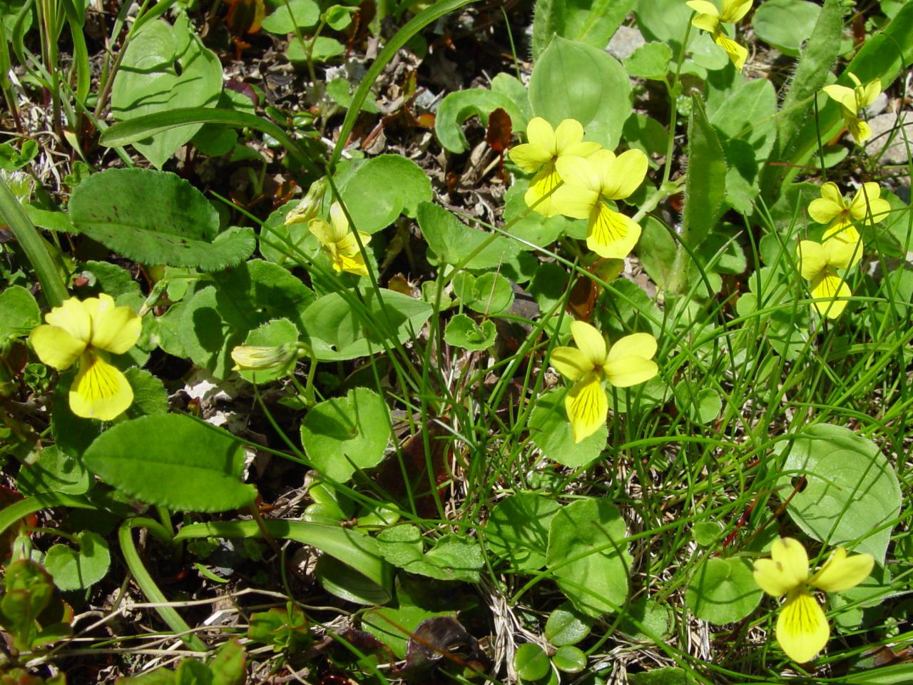 Viola biflora lives in Mount Kogouchi of Akaishi MountainsKibananokomatsume_in_Kogouchidake